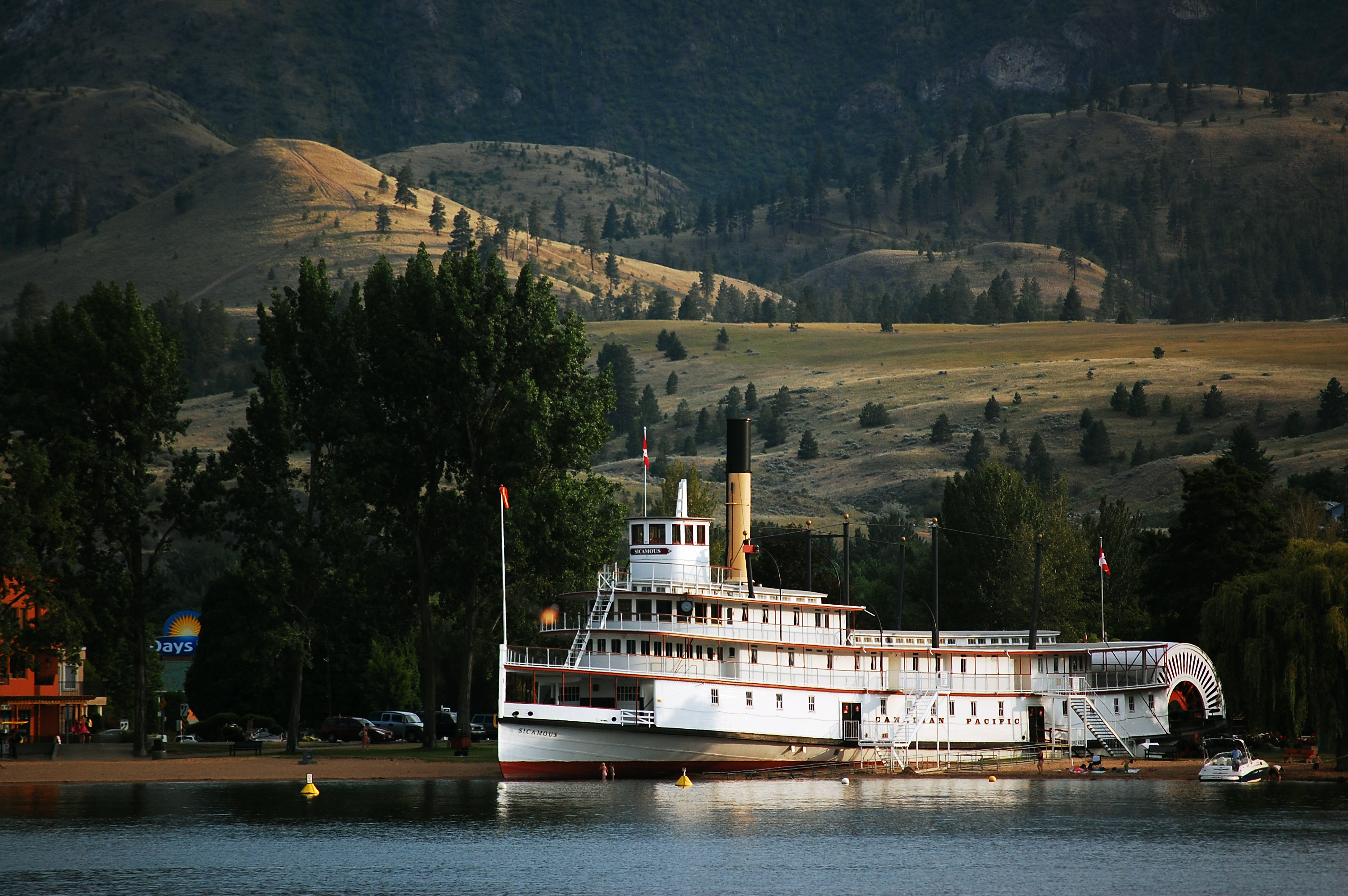 Sicamous, sternwheeler, on beach at Penticton, July 5, 2009.